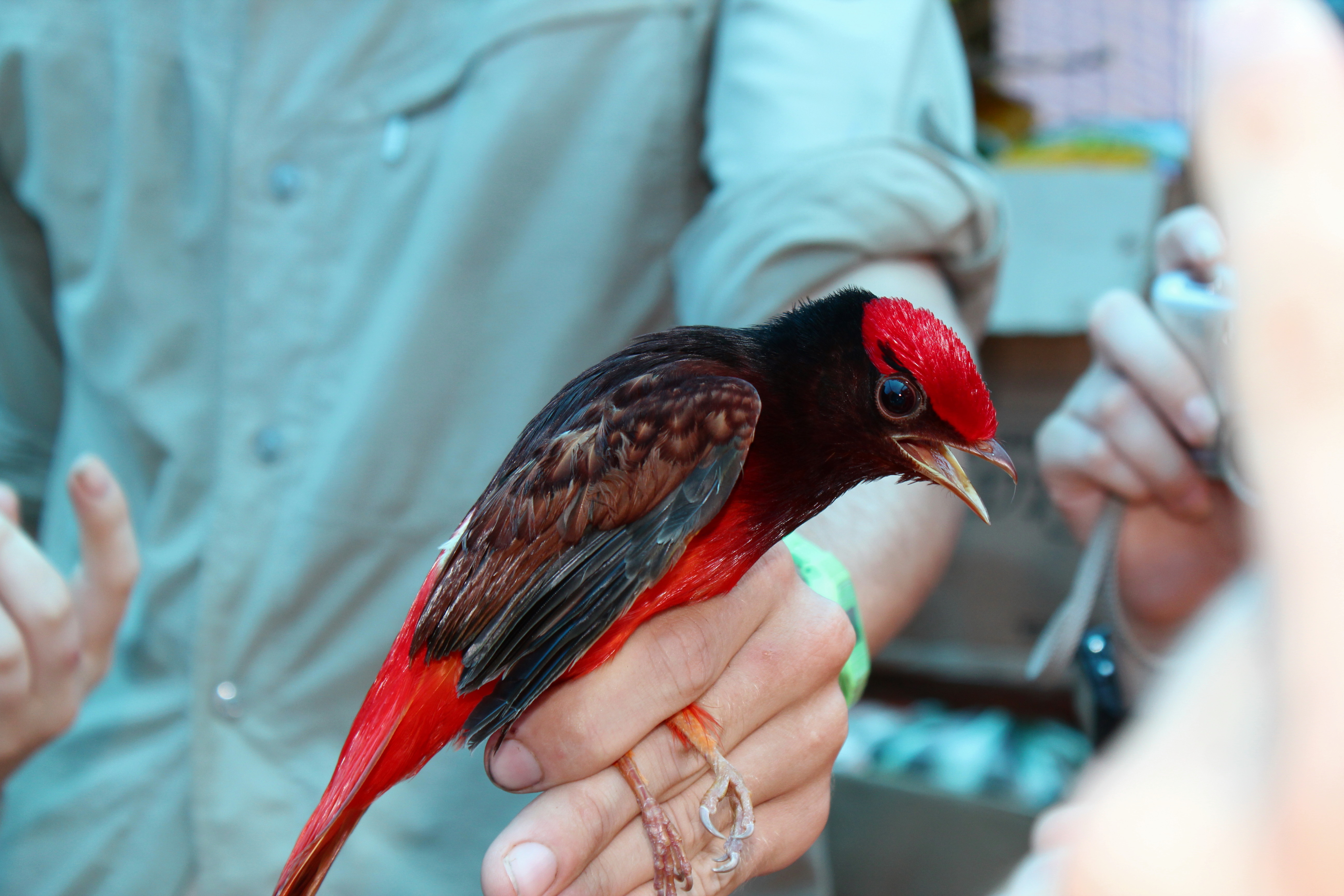 Phoenicircus carnifex, Potaro-Siparuni region, Guyana